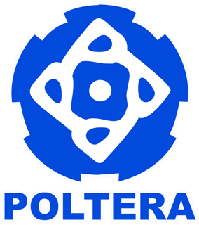 This file is in the public domain in Indonesia, because it is published and distributed by the Government of Republic of Indonesia, according to Article 43 of Law 28 of 2014 on copyrights. There shall be no infringement of Copyright for: Publication, Distribution, Communication, and/or Reproduction of State emblems and national anthem in accordance with their original nature; Any Publication, Distribution, Communication, and/or Reproduction executed by or on behalf of the government, unless stated to be protected by laws and regulations, a statement to such Works, or when Publication, Distribution, Communication, and/or Reproduction to such Works are made; Reproduction, Publication, and/or Distribution of Portraits of the President, Vice President, former Presidents, former Vice Presidents, National Heroes, heads of State institutions, heads of ministries/nonministerial government agencies, and/or the heads of regions by taking into account the dignity and appropriateness in accordance with the provisions of laws and regulations This work includes material that may be protected as a trademark in some jurisdictions. If you want to use it, you have to ensure that you have the legal right to do so and that you do not infringe any trademark rights. See our general disclaimer.This tag does not indicate the copyright status of the attached work. A normal copyright tag is still required. See Commons:Licensing.